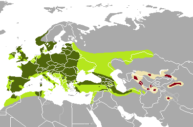 Reconstructed (light green) and recent (dark green) range of the red deer (Cervus elaphus)